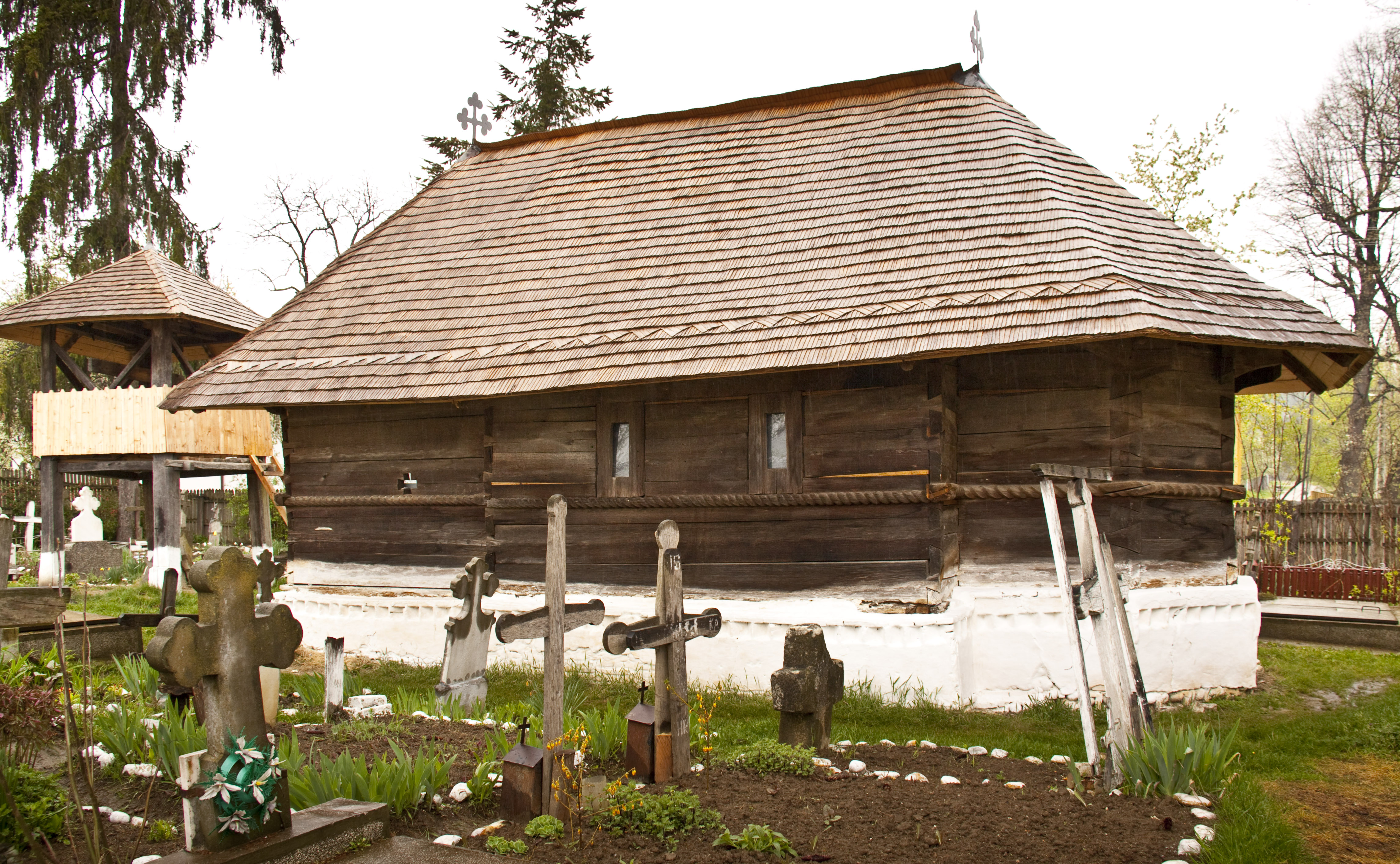 Cârstieni, Argeş county, Romania: the wooden church.